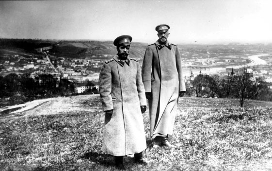 Nicholas II and Grand Duke Nicholas Nikolaevich of Russia (1856–1929)